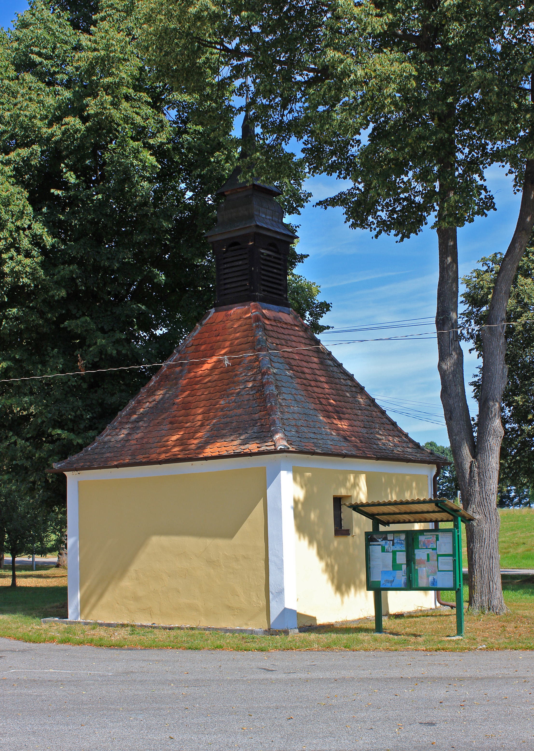 Chapel in Lipnice, part of Jílovice, Czech Republic.